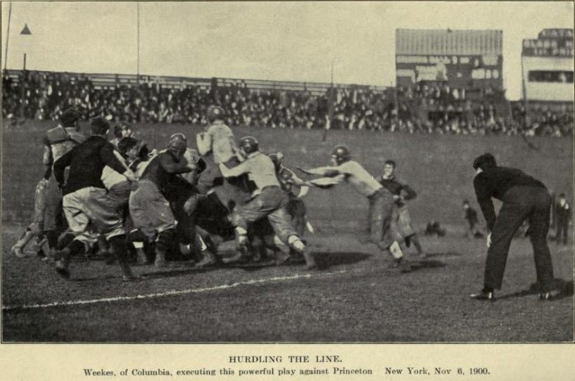 From "Football – The American Intercollegiate Game," written by Parke H. Davis